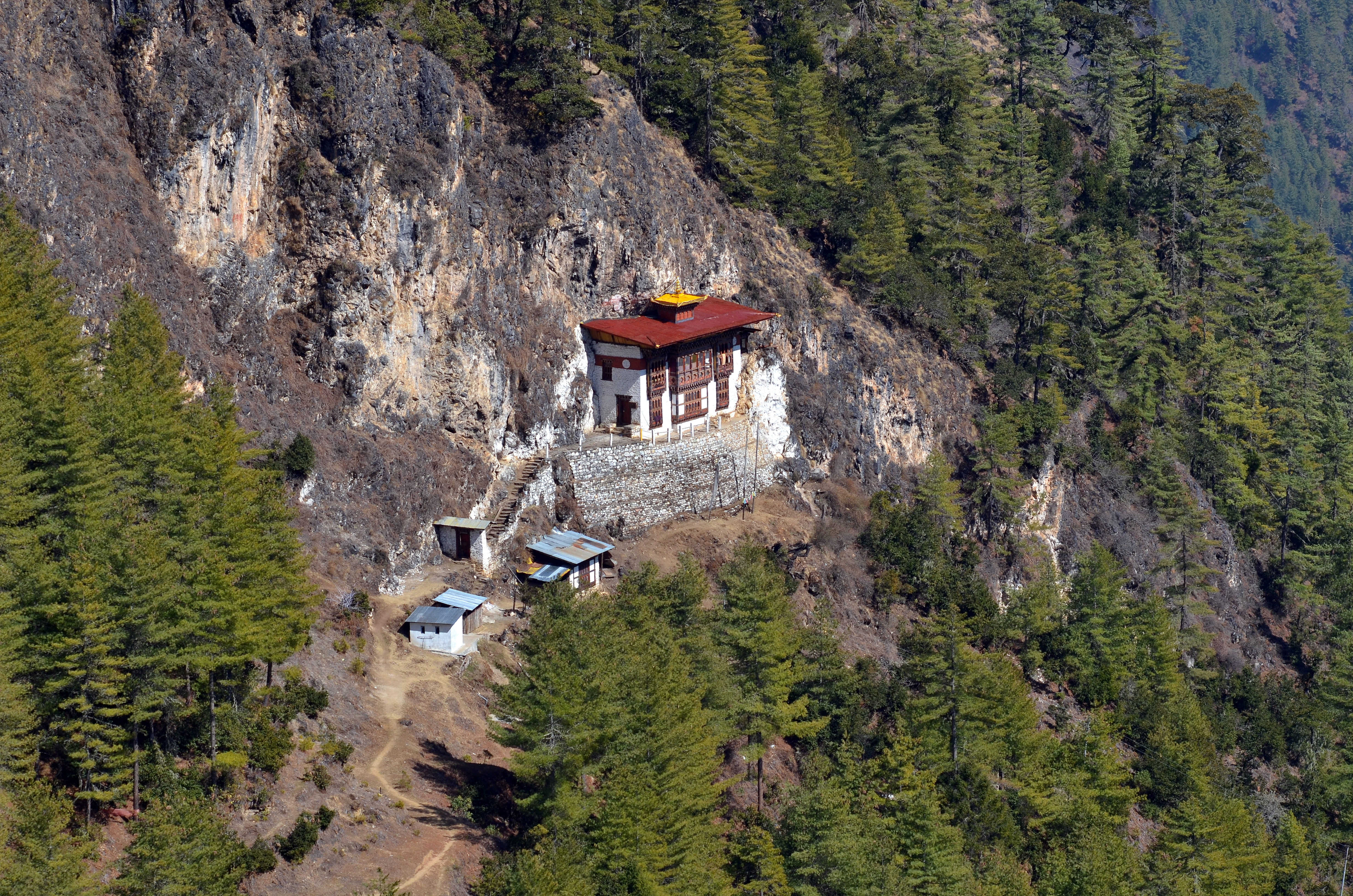 Shelkardra, a sacred place of Padmadambhava, in Yüsu (Uesu) Gewog, Haa District, Bhutan